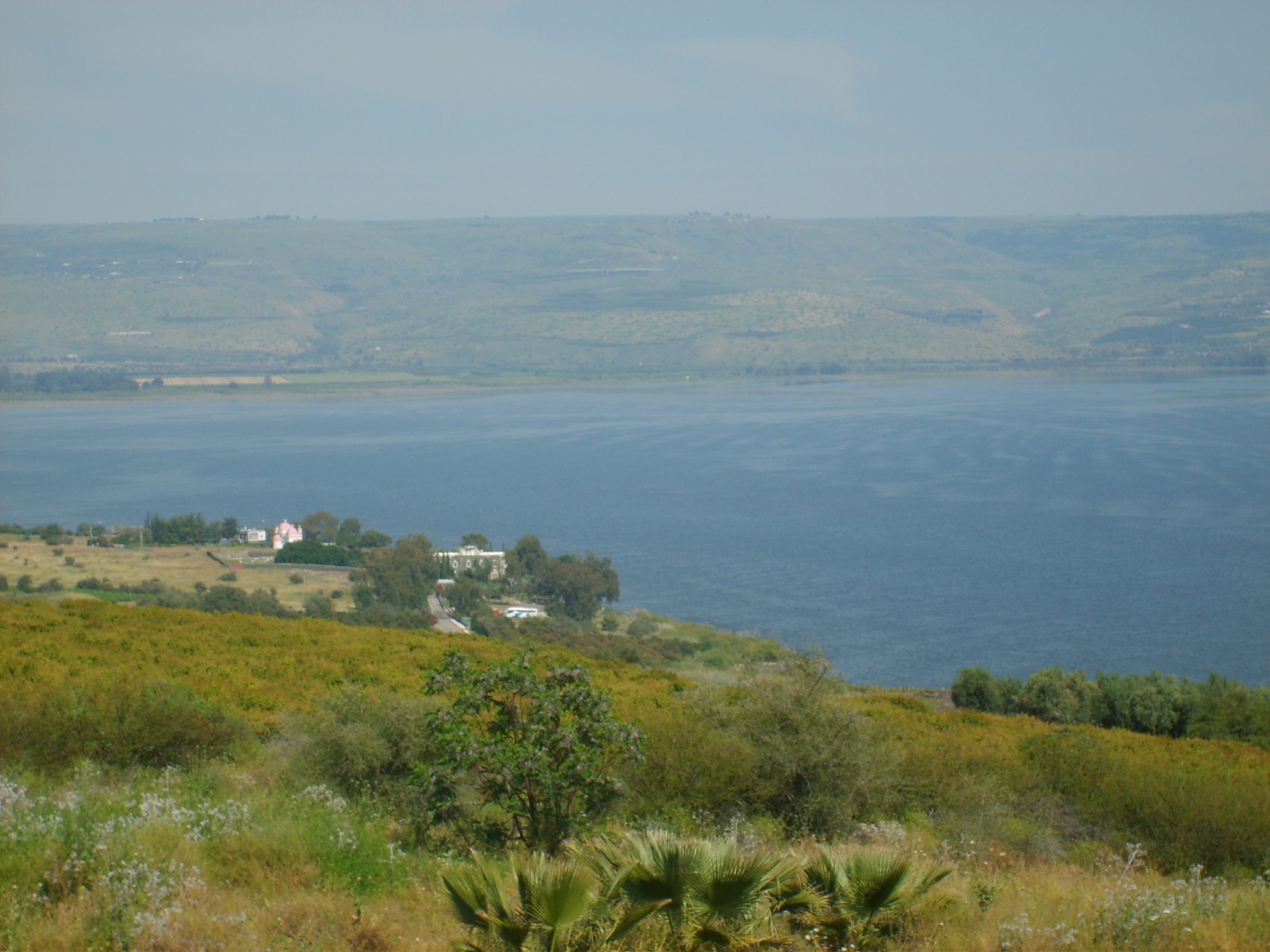 View to Capernaum and the Sea of Galilee - seen from the Catholic church at the Mount of Beatitudes.